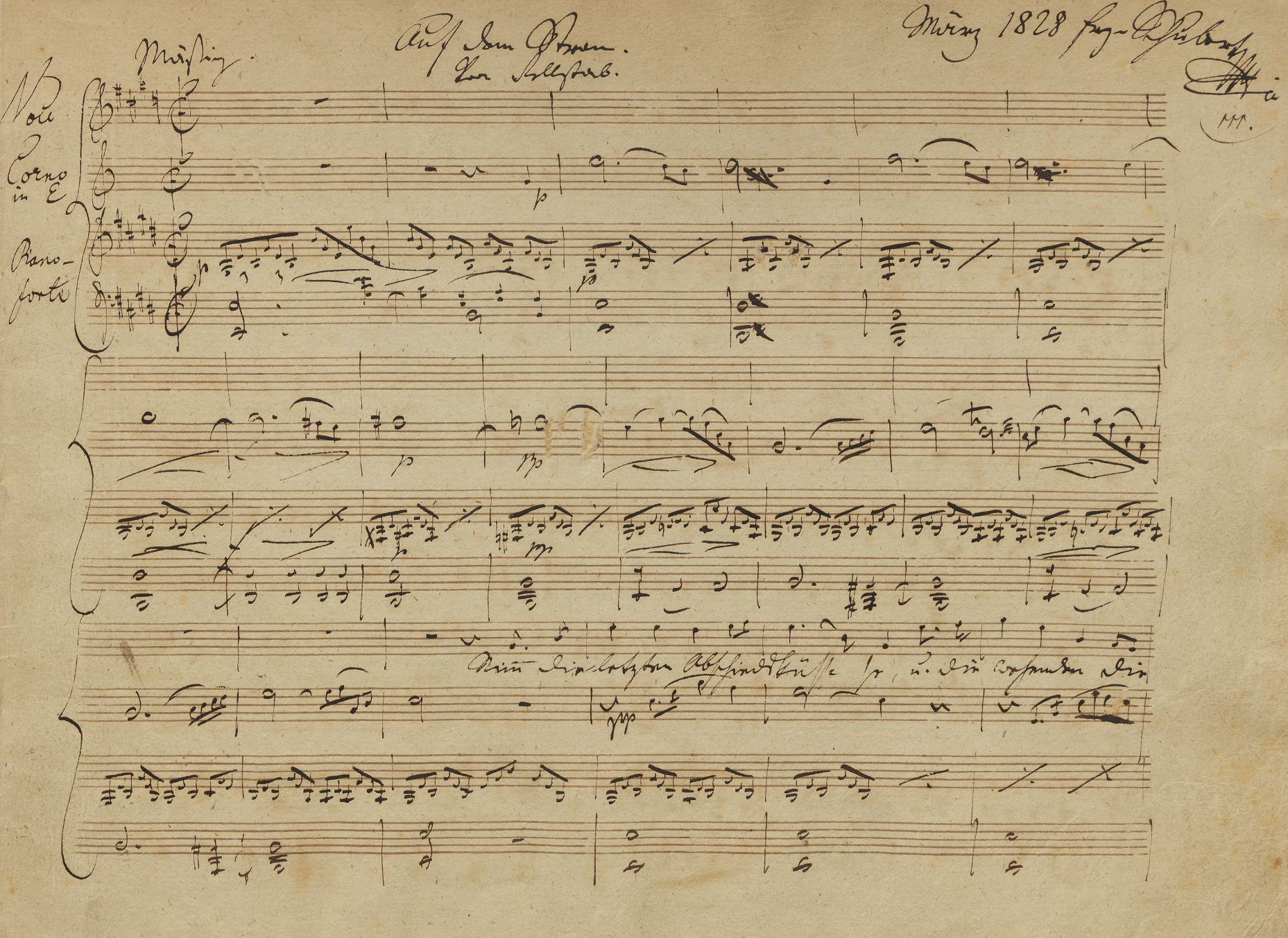 First page of music manuscript for Auf dem Strom: von Rellstab Op. posth. 119, D 943 by Franz Shubert (1797-1828), dated 1828 Mar. Complete manuscript available at source: MS Mus 99.2, Houghton Library, Harvard University